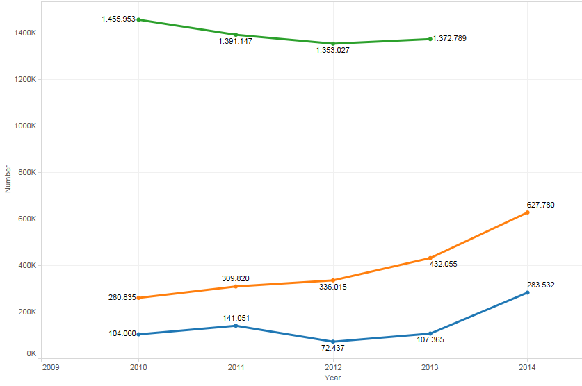 Immigration of non-EU nationals (green), asylum applicants (orange) and illegal border-crossings (blue) in the European Union, 2010-2014